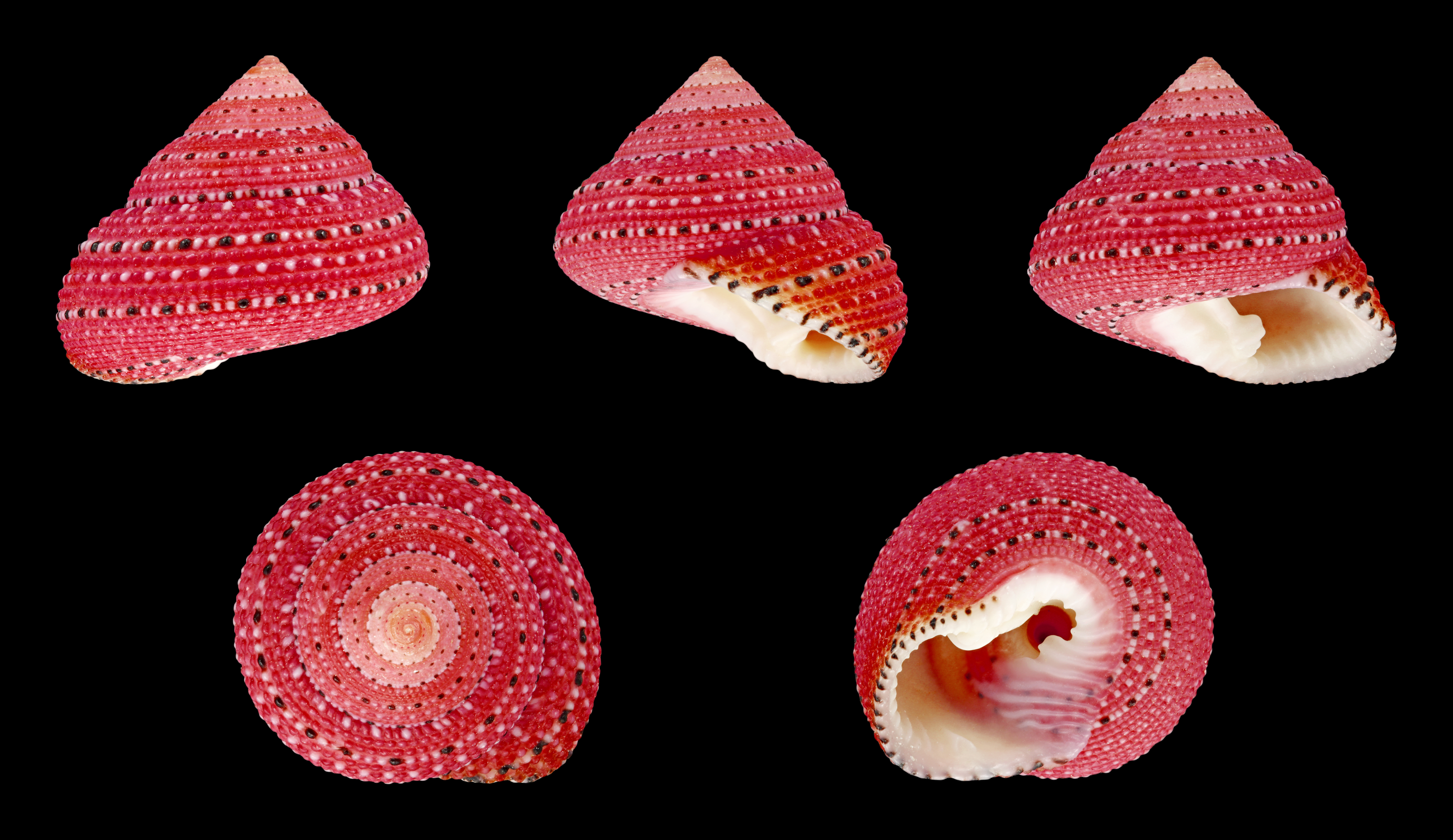 Purplish Clanculus; Diameter 2.0 cm; Originating from Madagascar; Shell of own collection, therefore not geocoded.